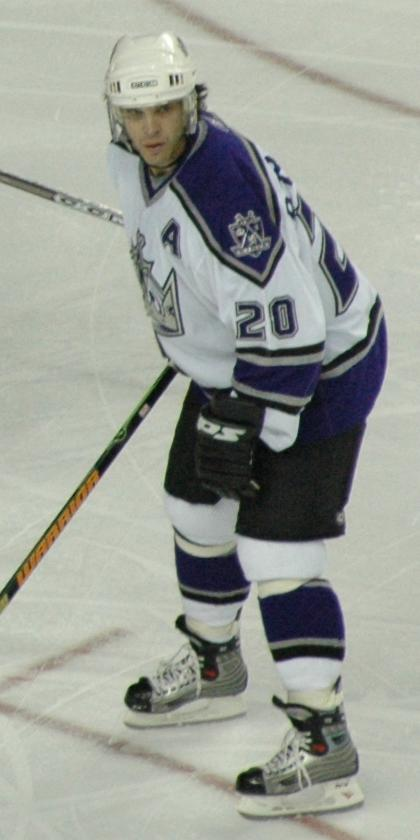 Luc Robitaille of the Los Angeles Kings, December 21, 2005